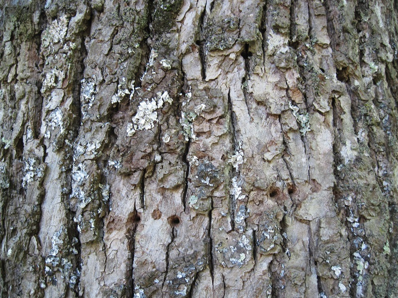 The bark of an American Linden (Tilia americana) in Hollis, New Hampshire.